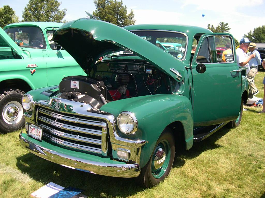 1954 GMC truck photographed at the Bay State Antique Automobile Club's July 10, 2005 show at the Endicott Estate in Dedham, MA.